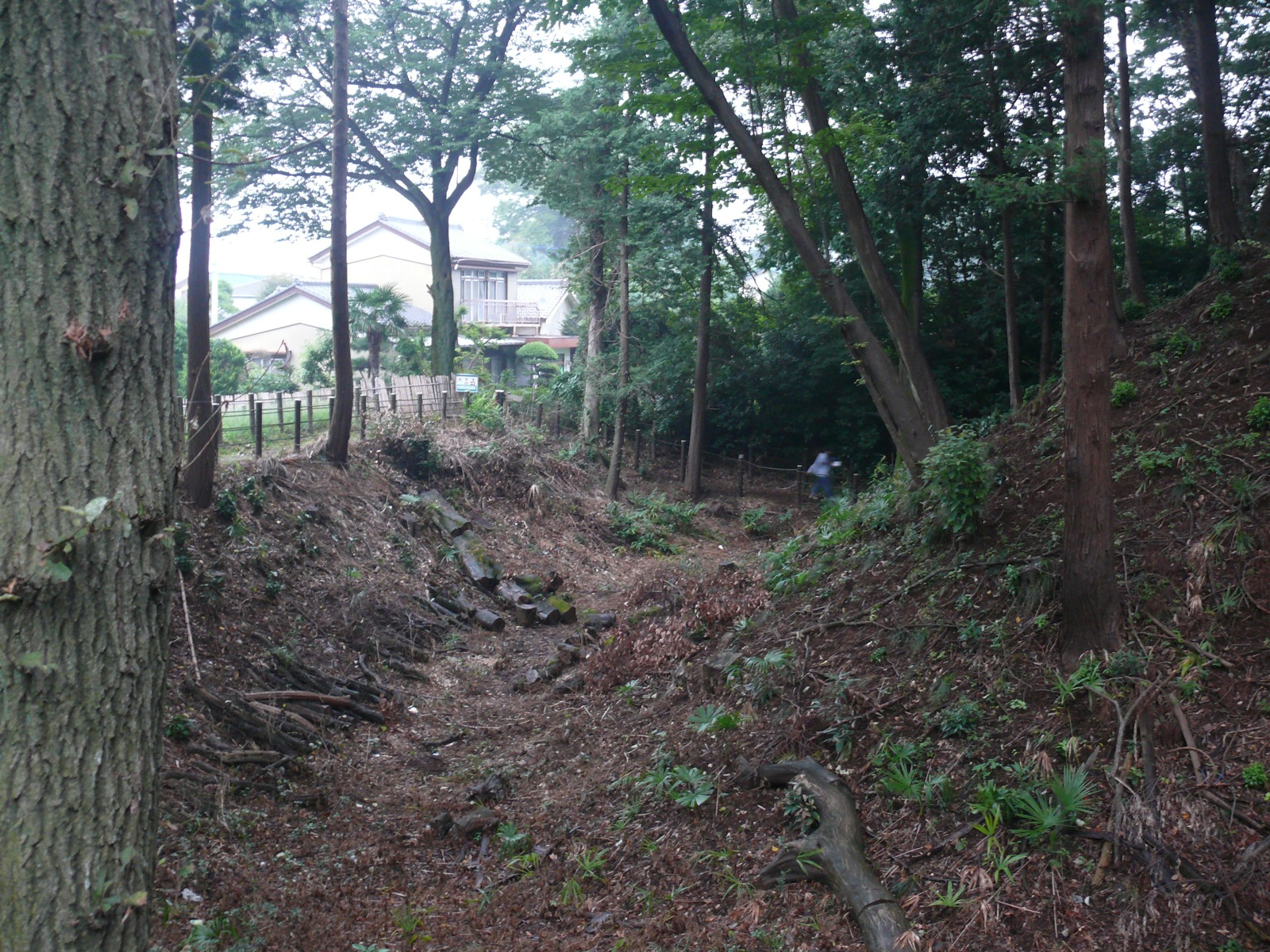 The dry moat on the Waterfall Castle, Tokorozawa, Saitama, Japan